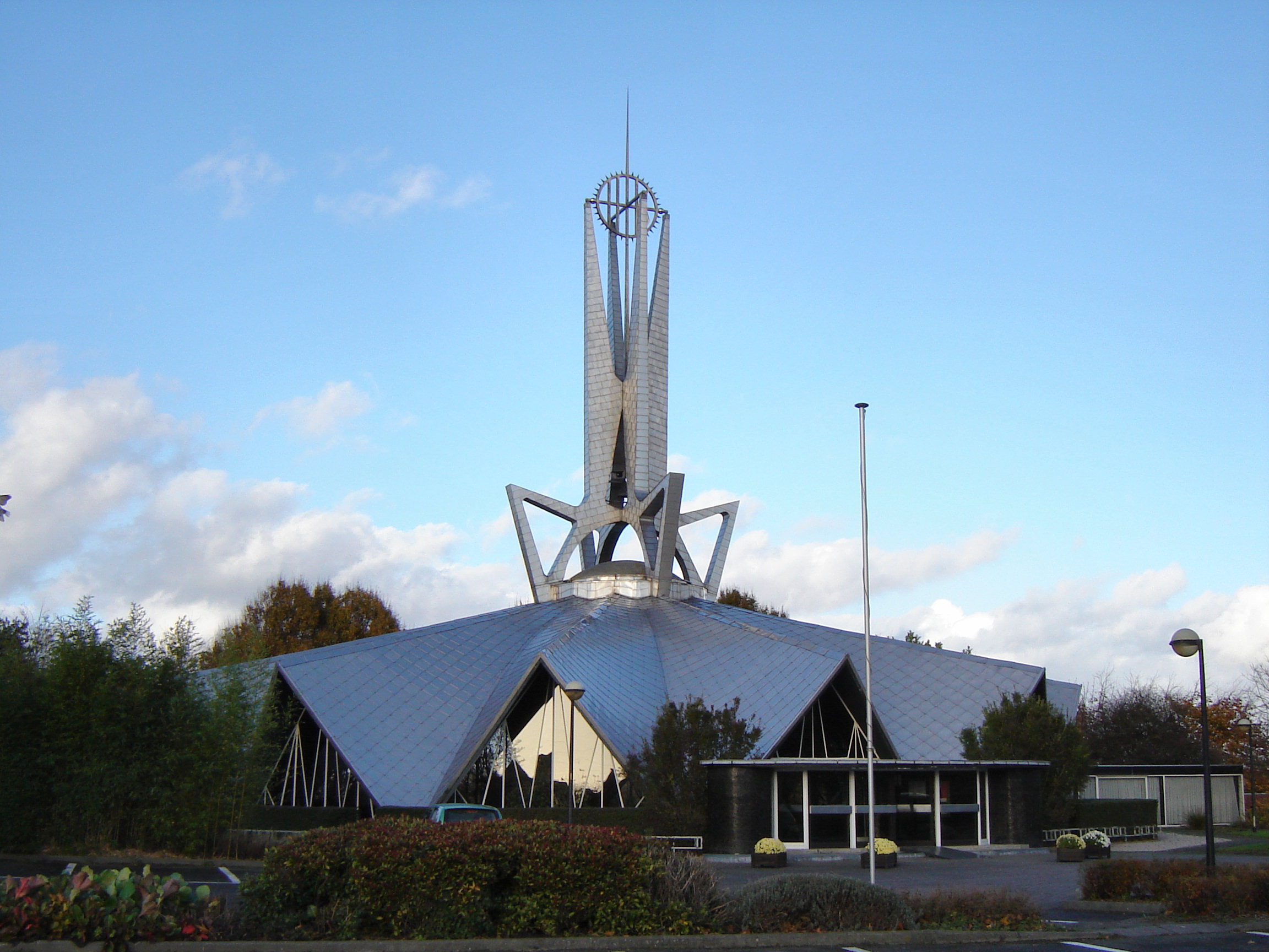 Church of Christ the King in Sleihage. Sleihage, Hooglede, West Flanders, Belgium